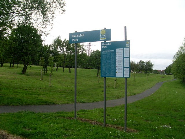 Househill Park, Hurlet Sandwiched between the Levern Water, Barrhead Road and Nitshill Road.